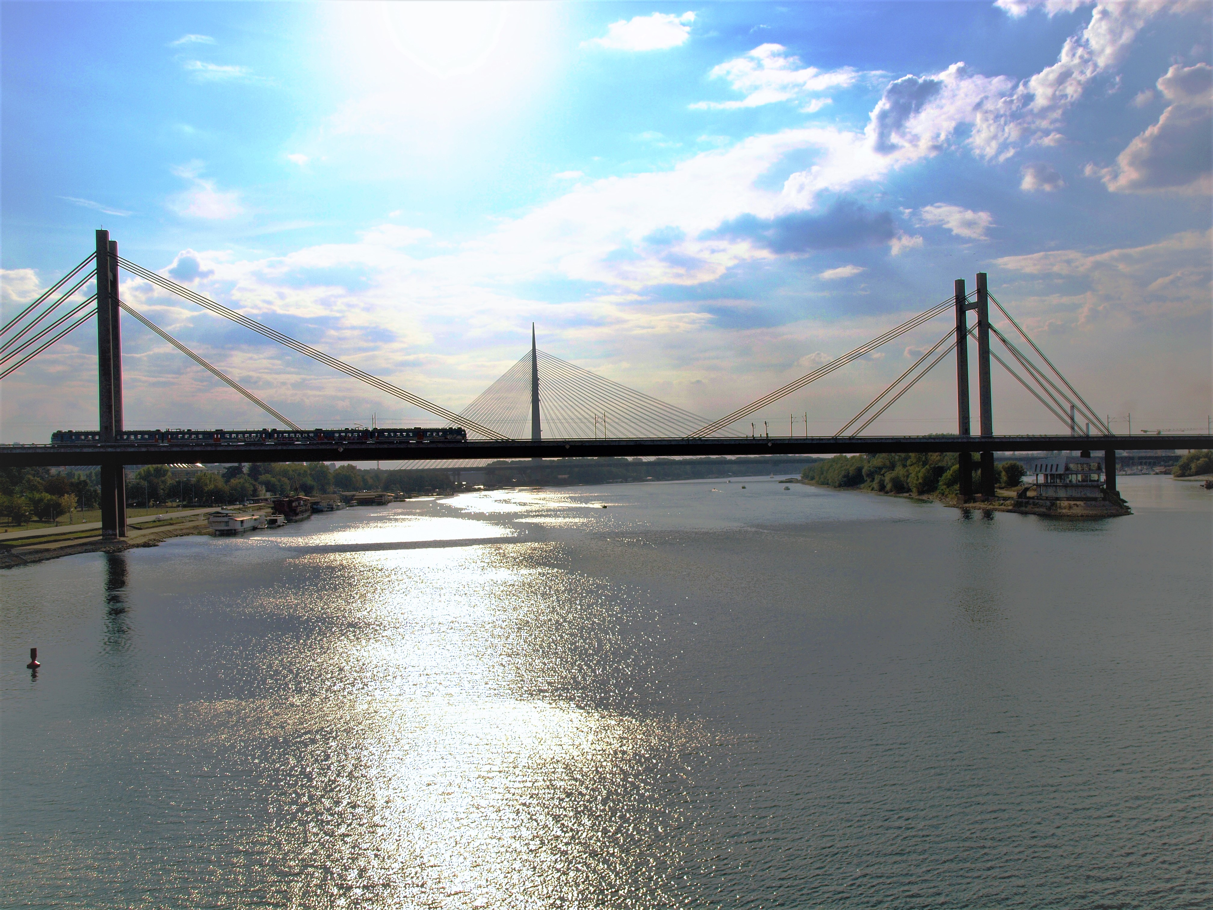 new railway bridge serbia belgrade